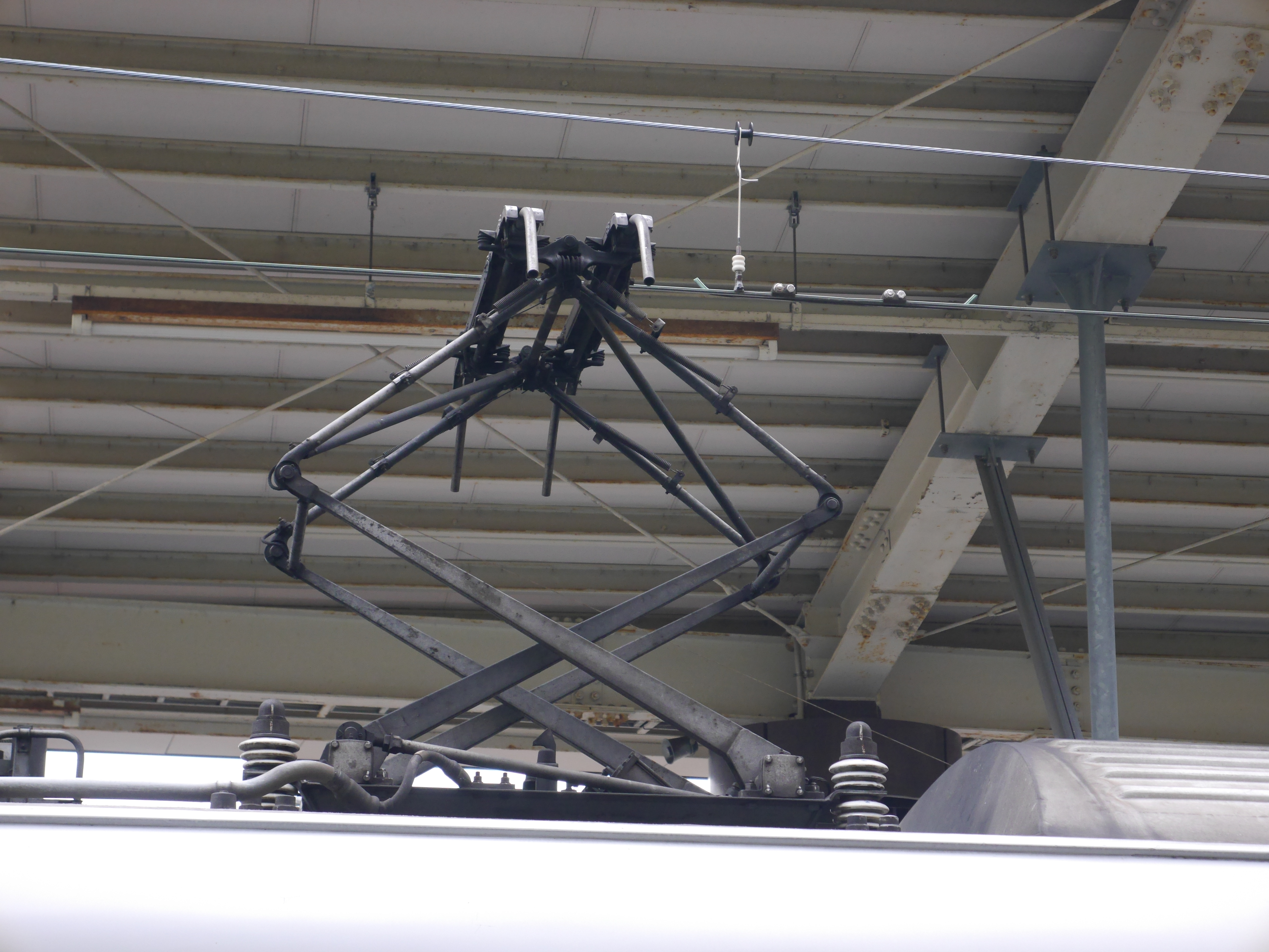 A PS27 pantograph on a JR East 251 series EMU